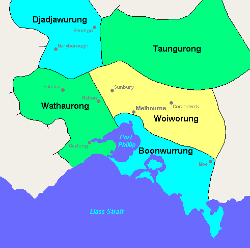 a very basic map of the 5 kulin language groups and a few current cities.